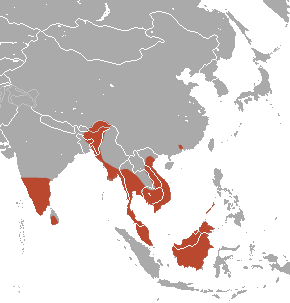 Lesser Short-nosed Fruit Bat (Cynopterus brachyotis) range